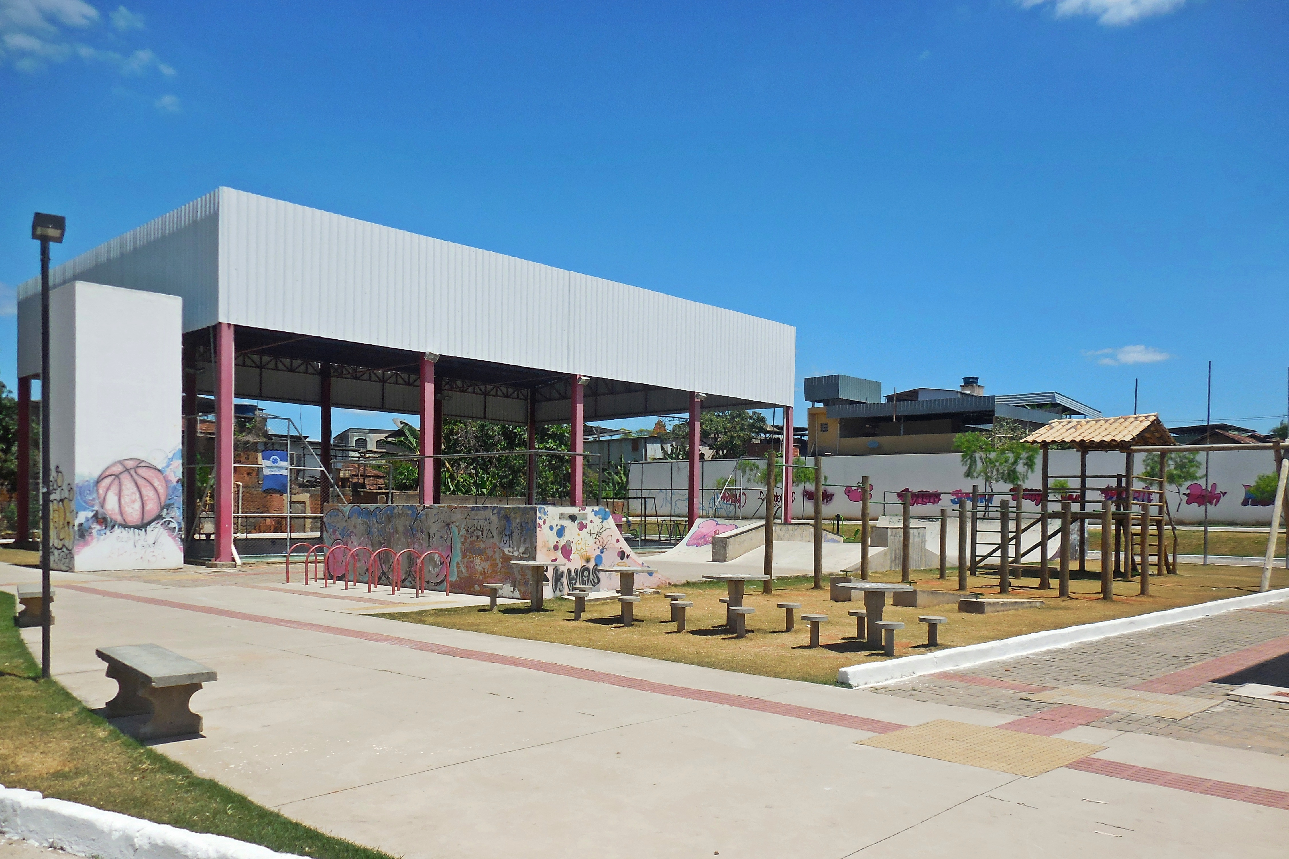 Square of the Centro de Artes e Esportes Unificados (center of arts and sports unified), in Coronel Fabriciano, Minas Gerais, Brazil.